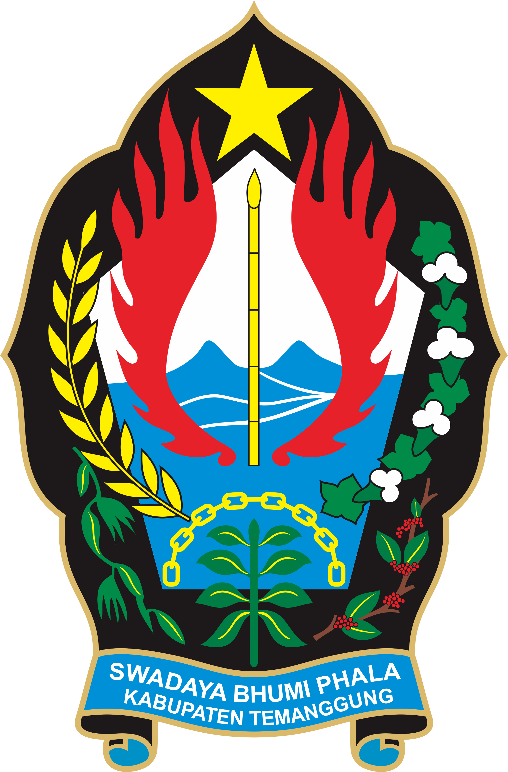 Coat of arms of Temanggung Regency